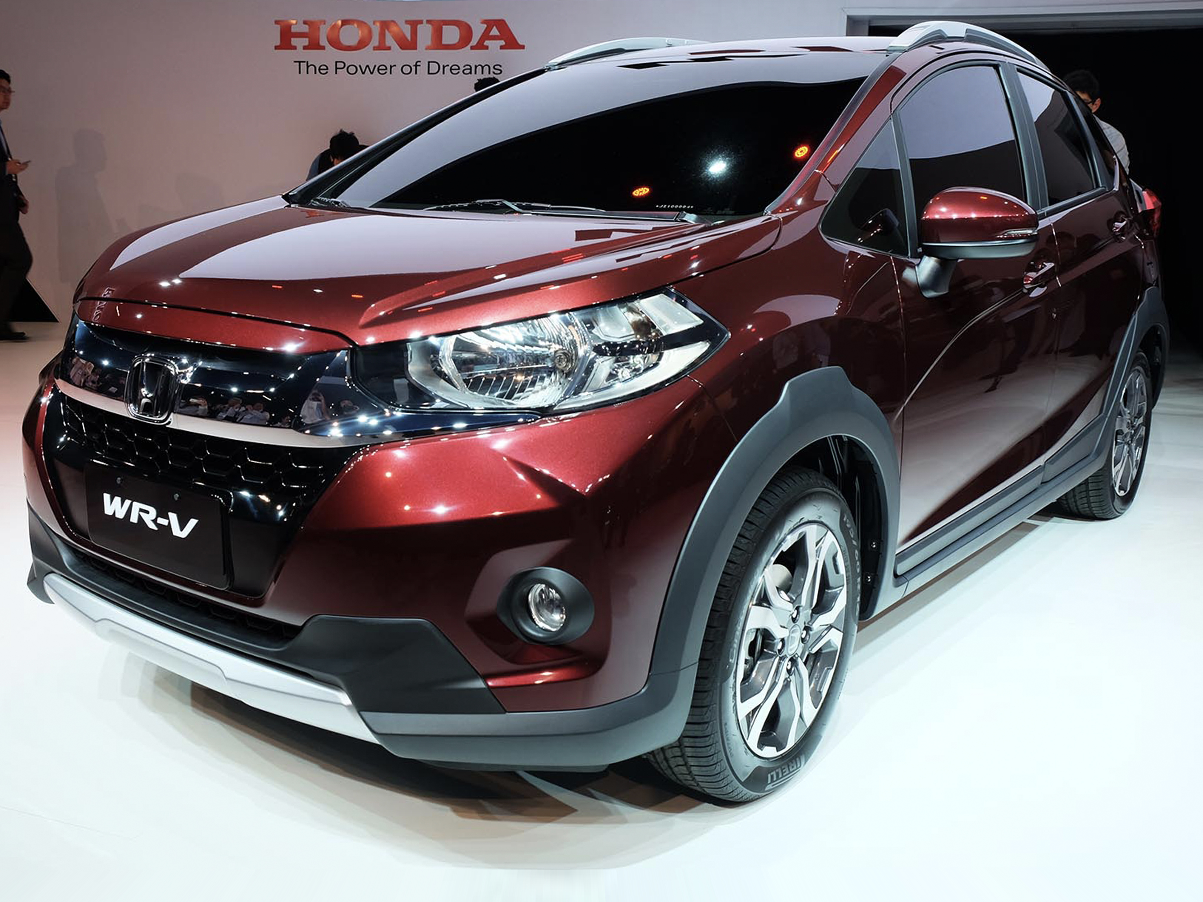 2017 Honda WR-V front view.